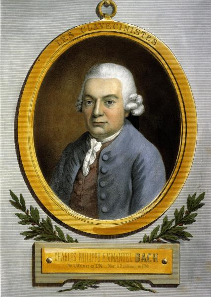 Depicted person: Carl Philipp Emanuel Bach